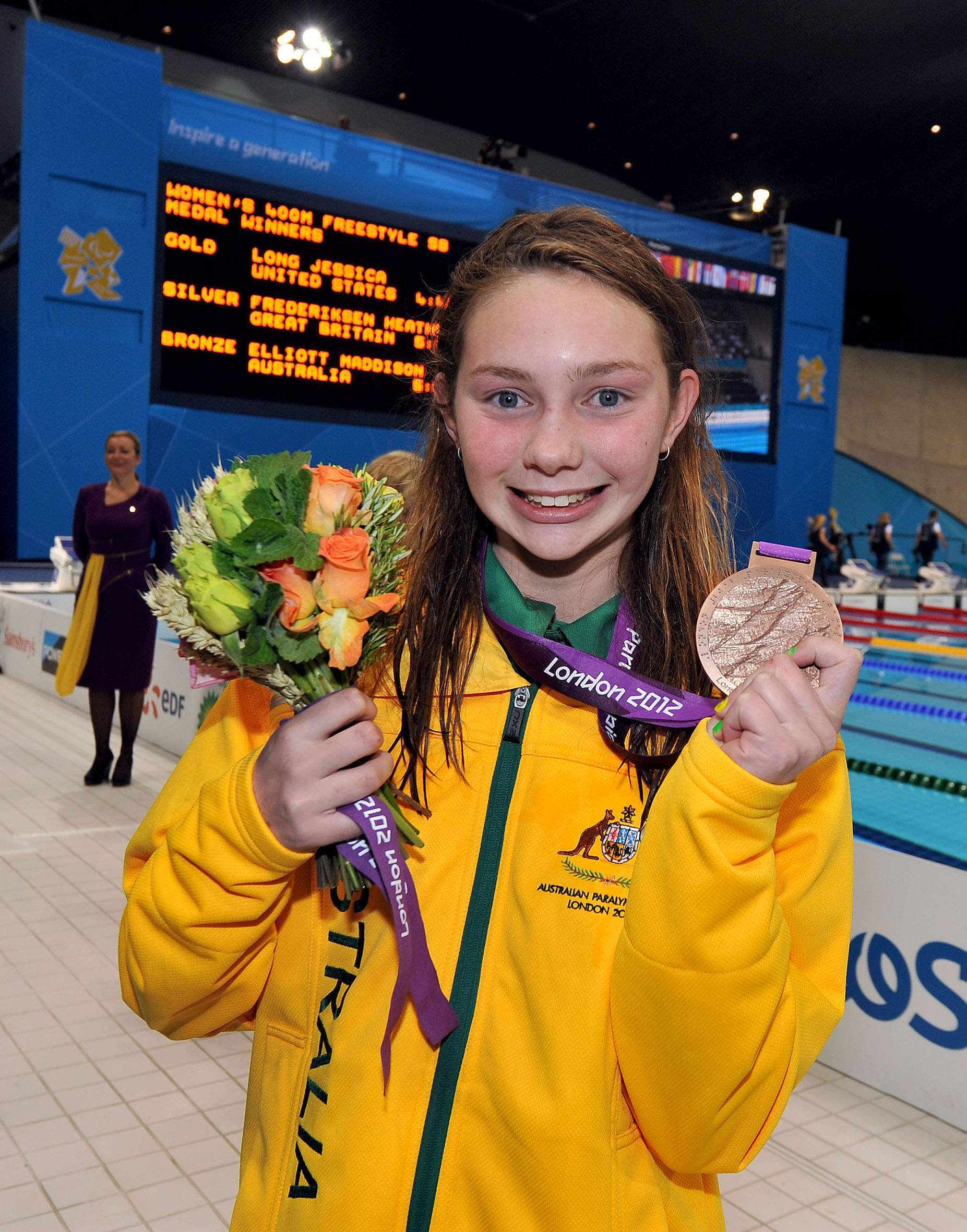 Photograph of Australian Paralympic team member Maddison Elliott at the 2012 Summer Paralympic Games in London